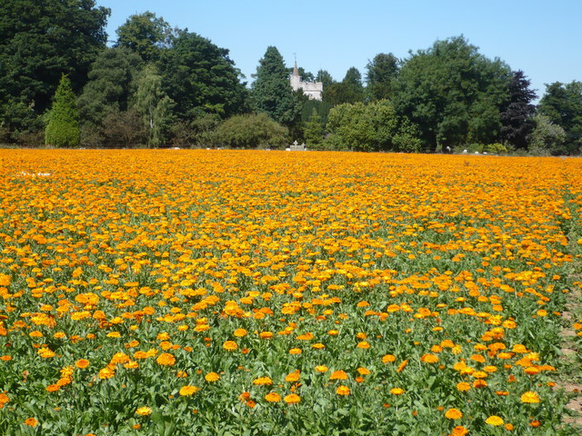 A non-food crop of calendulas or pot marigolds, looking across to Sheldwich church and the A251. This is an enormous field of orange flowers, part of the Lees Court Estate. I believe that oil is extracted from the plants.